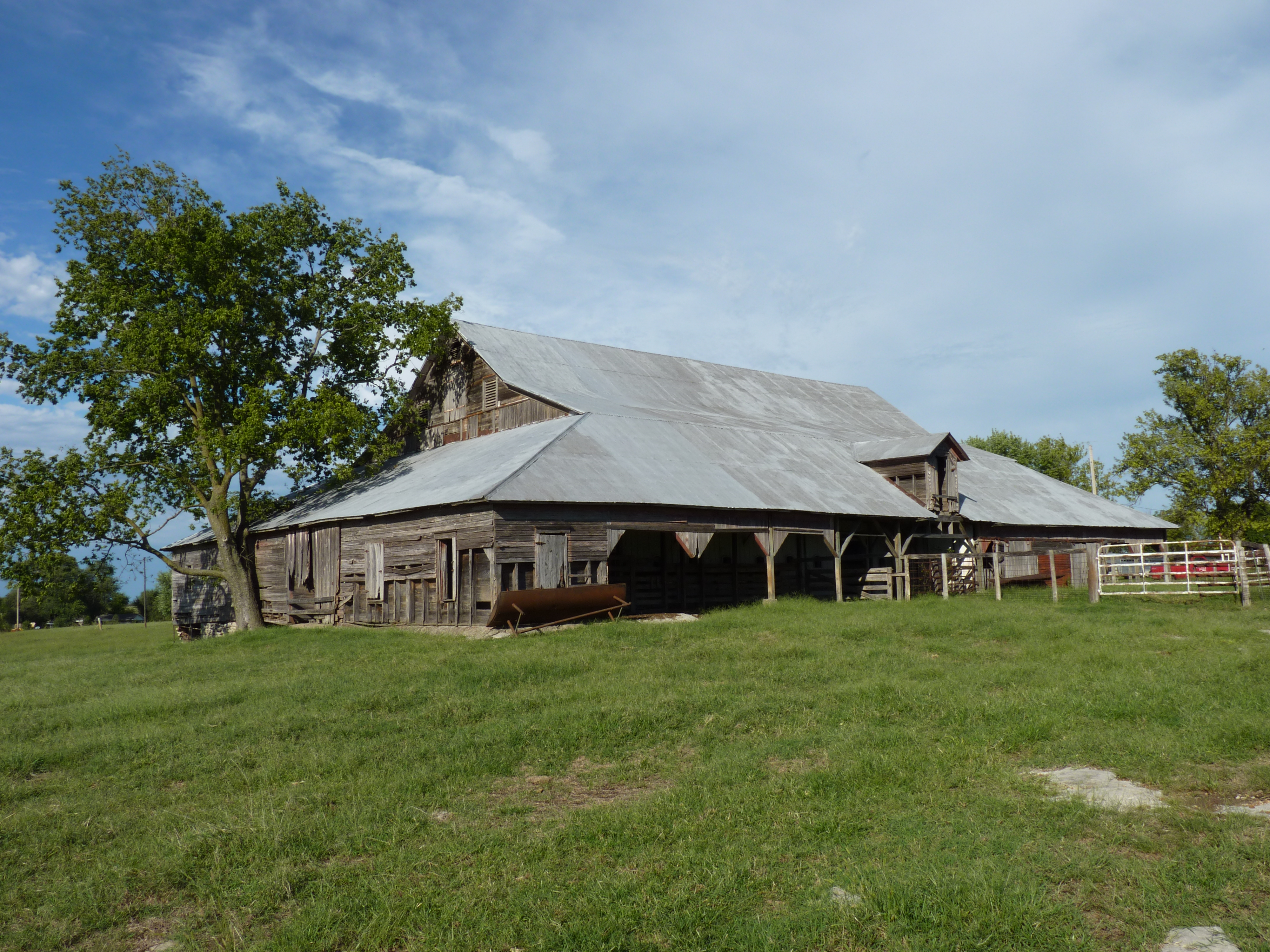 Southwest view of the John Patrick McNaughton Barn, as seen from the cow pasture surrounding the building.